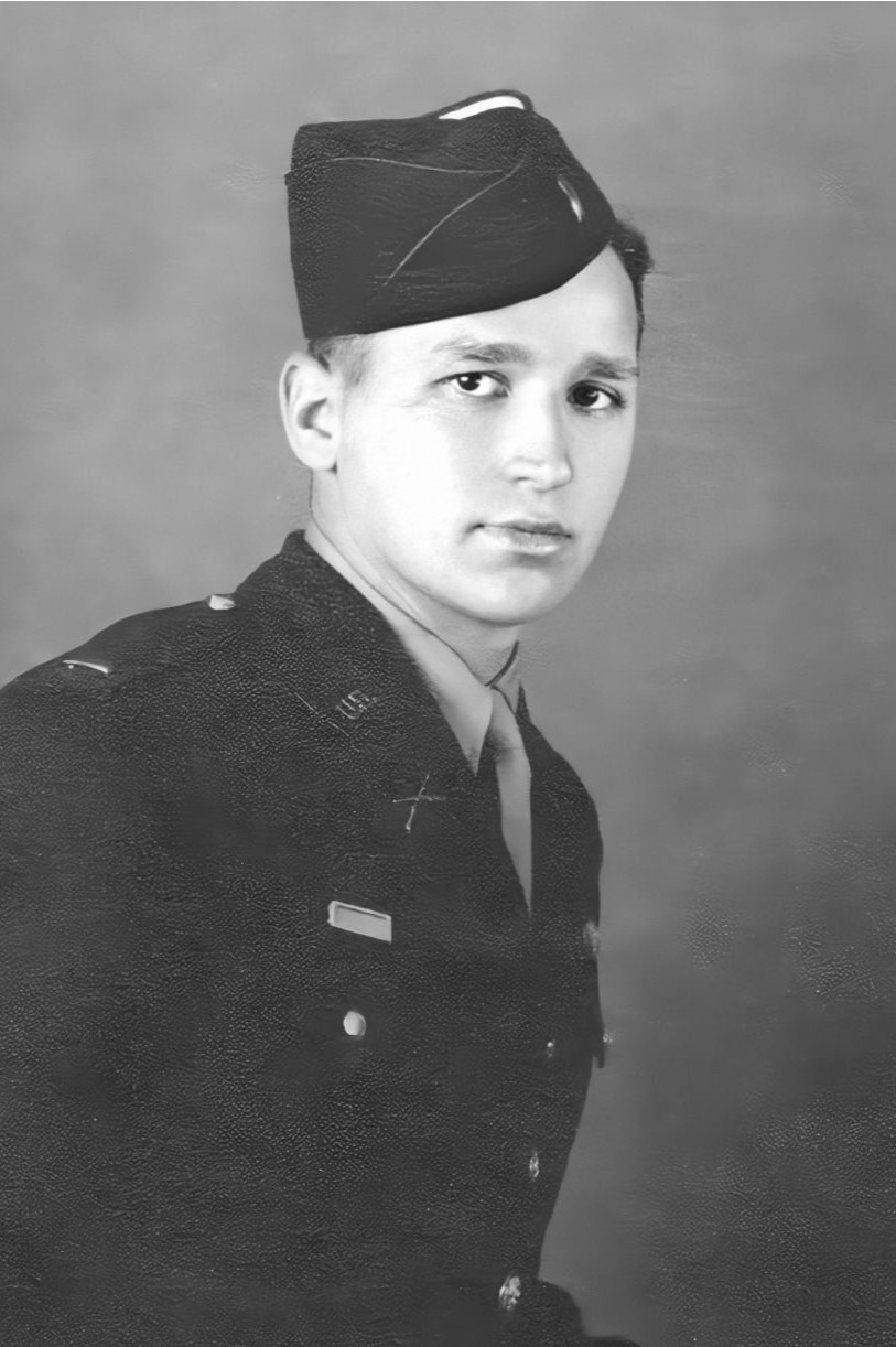 1st LT Edward Shames, Easy Company, 506th Parachute Infantry, 101st Airborne Division, US Army